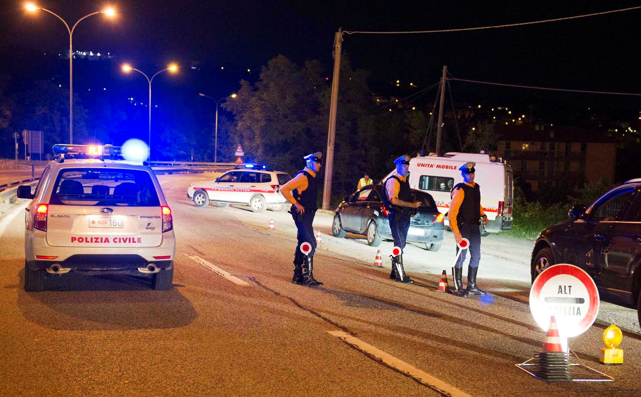 Posto di blocco POLIZIA CIVILE SAN MARINO